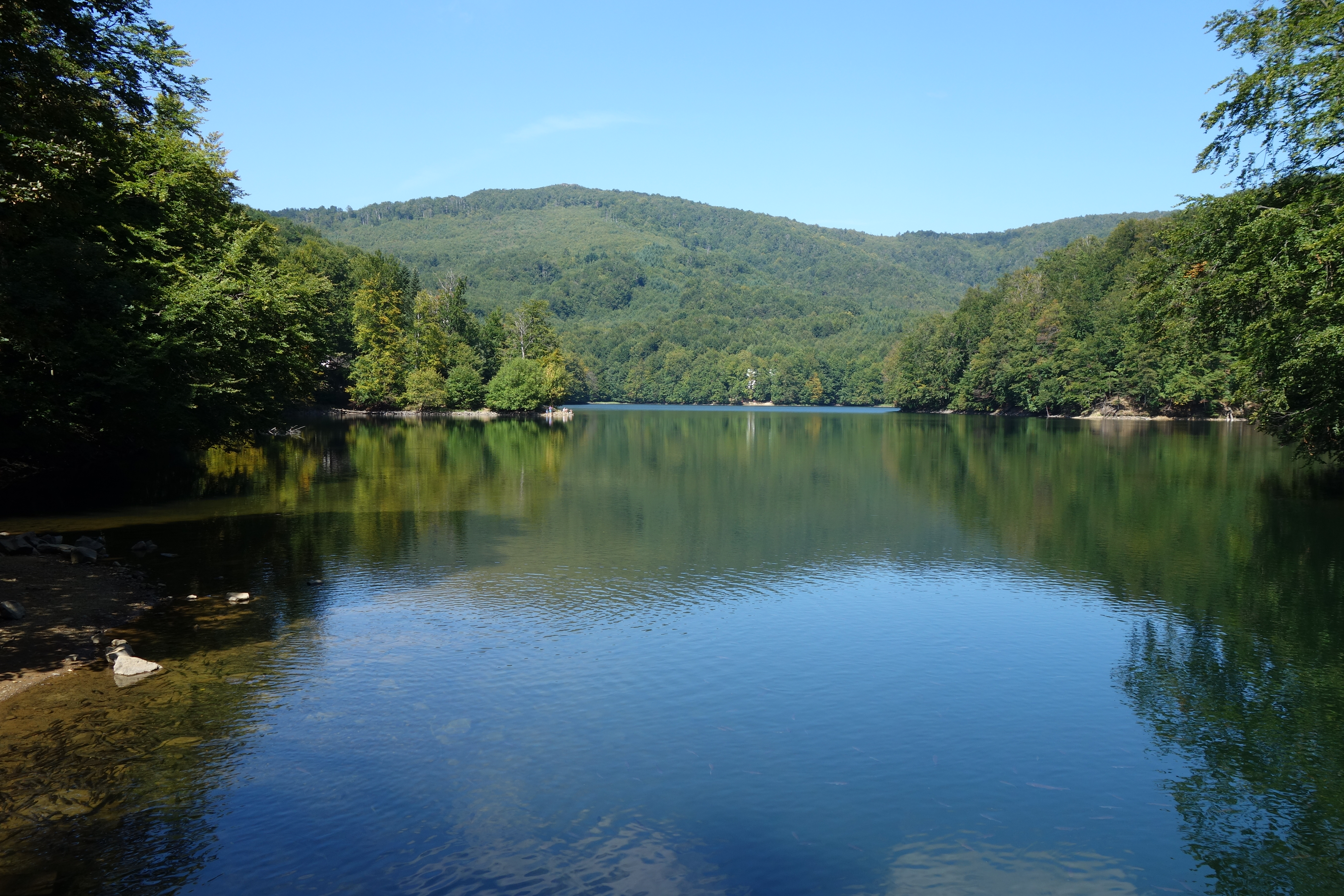 Sea Eye Lake and peak Sninský kameň This is a photography of Natura 2000 protected area with ID SKUEV0209